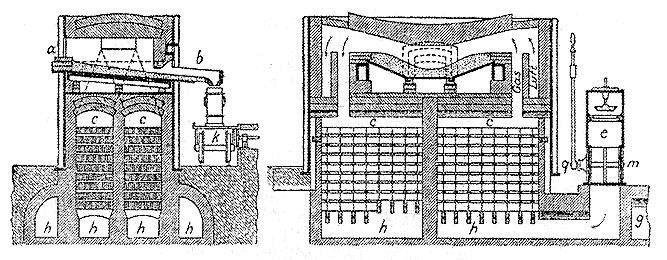 Open hearth furnace of Pierre-Émile Martin in Sireuil.